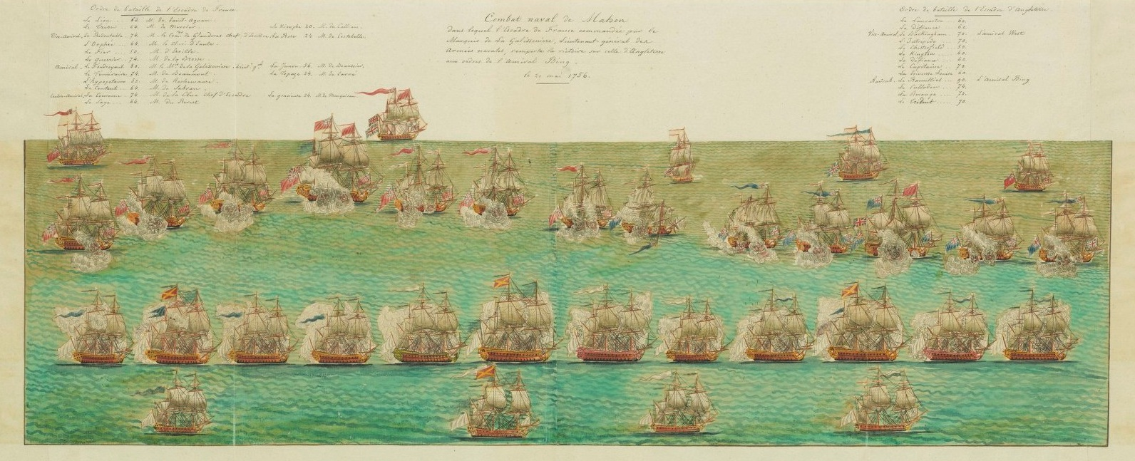 Overview of the naval port of Mahon in 1756. Watercolour showing the order of battle of all ships and frigates.